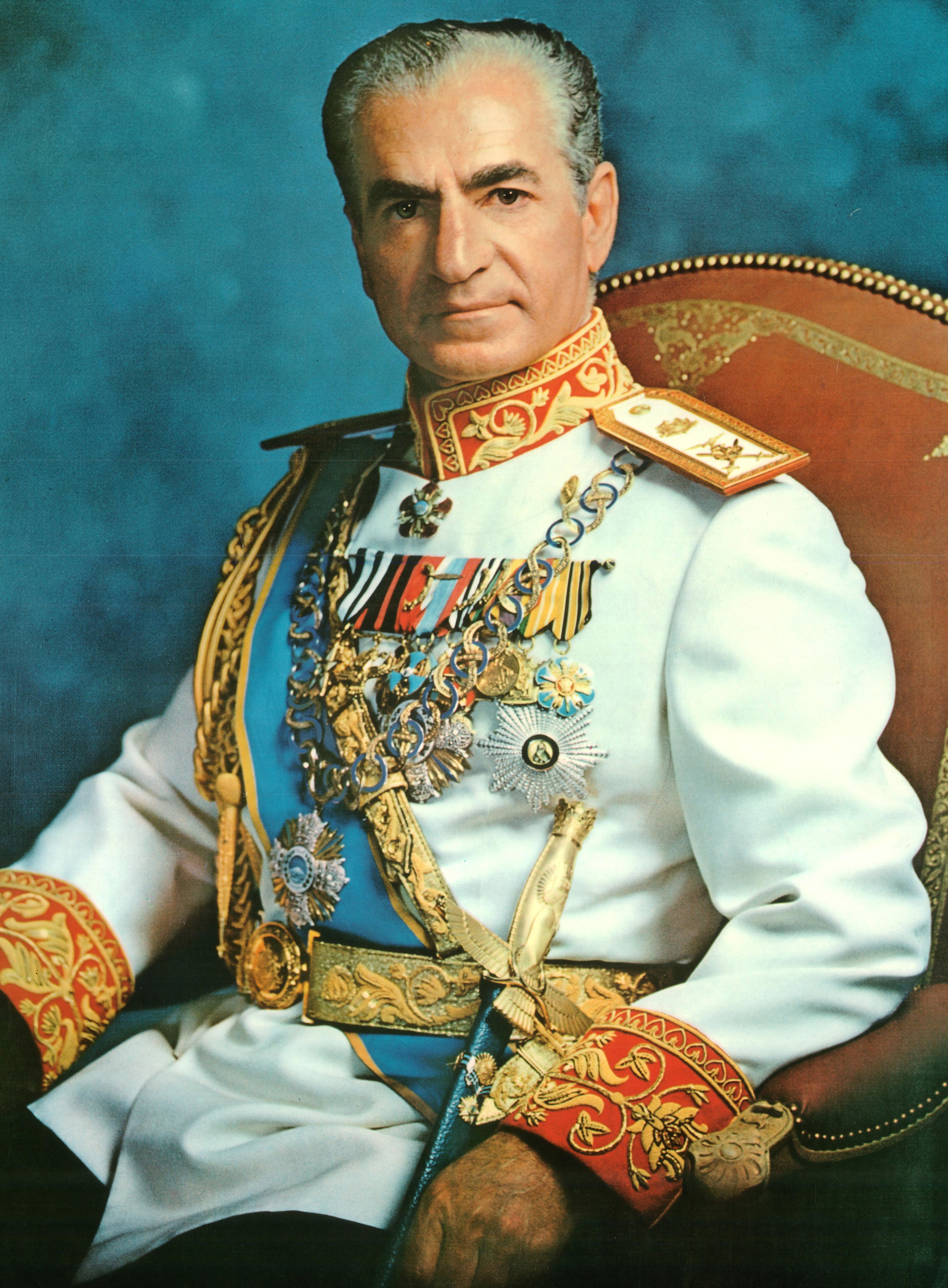 Shah of Iran Mohammad Reza Pahlavi on an official portrait, 1973